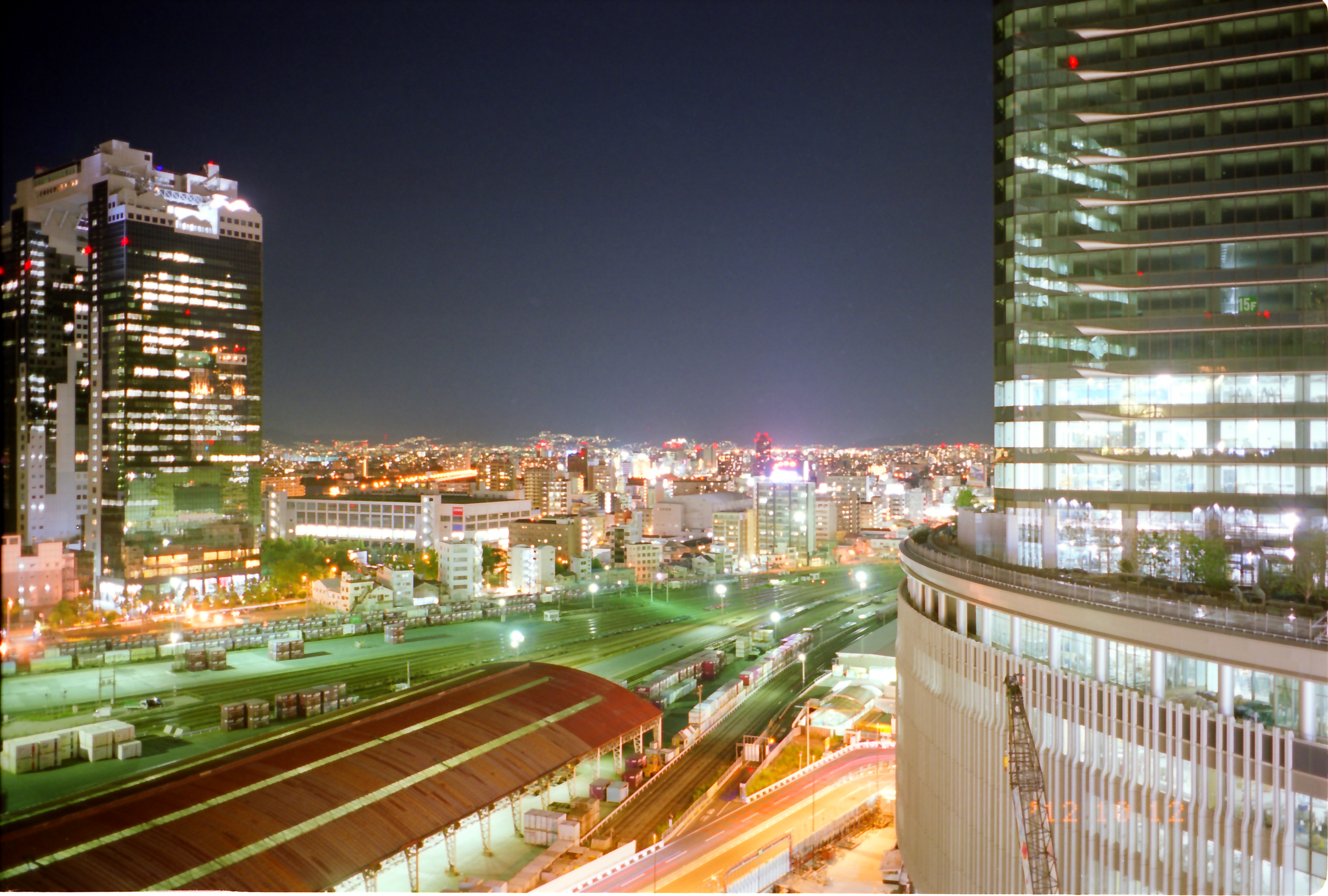 The night view from OSAKA North Gate Building.